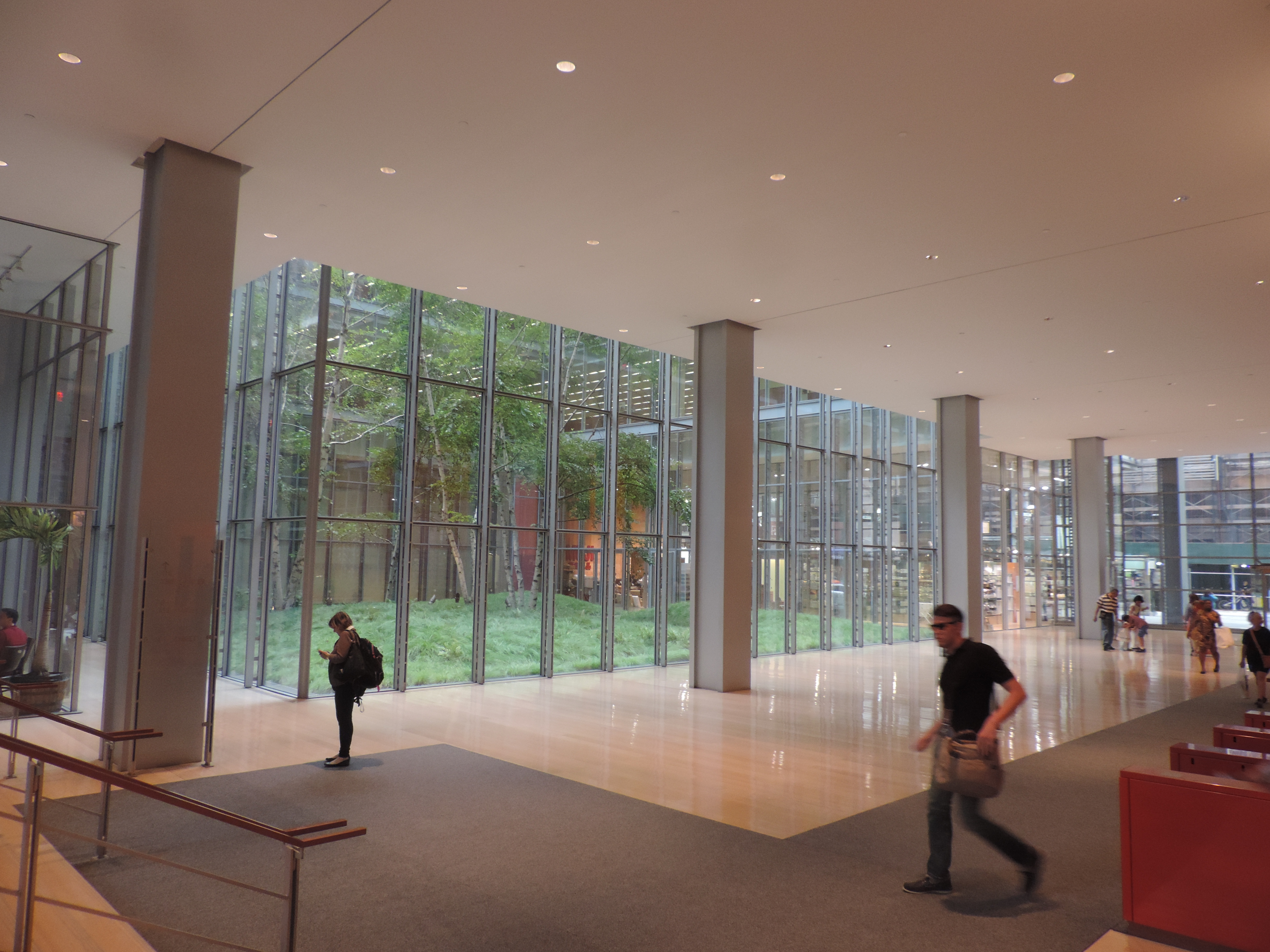 Looking south at NY Times atrium